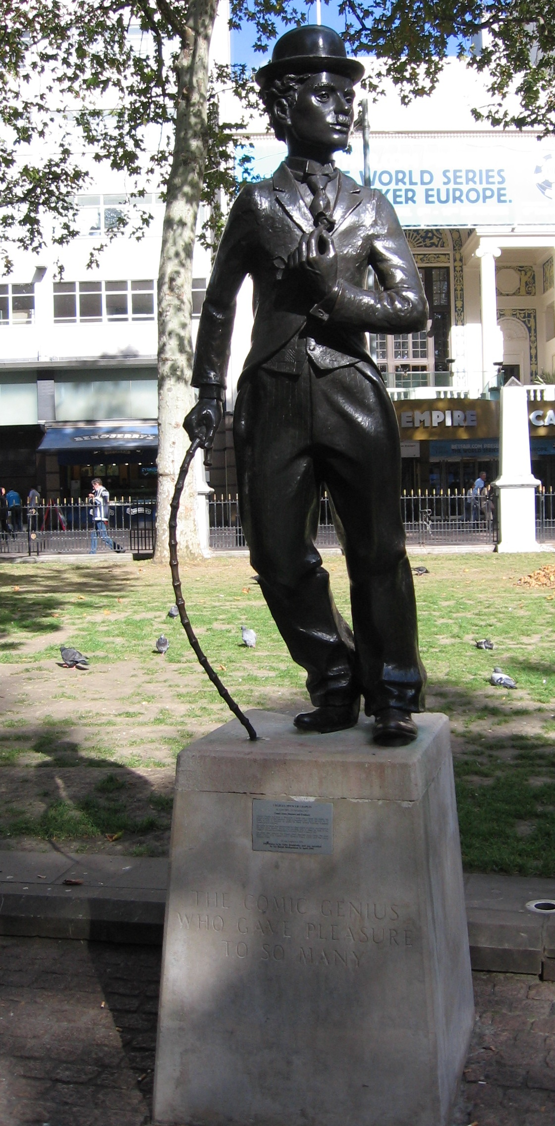 Charlie Chaplin statue by John Doubleday in Leicester Square